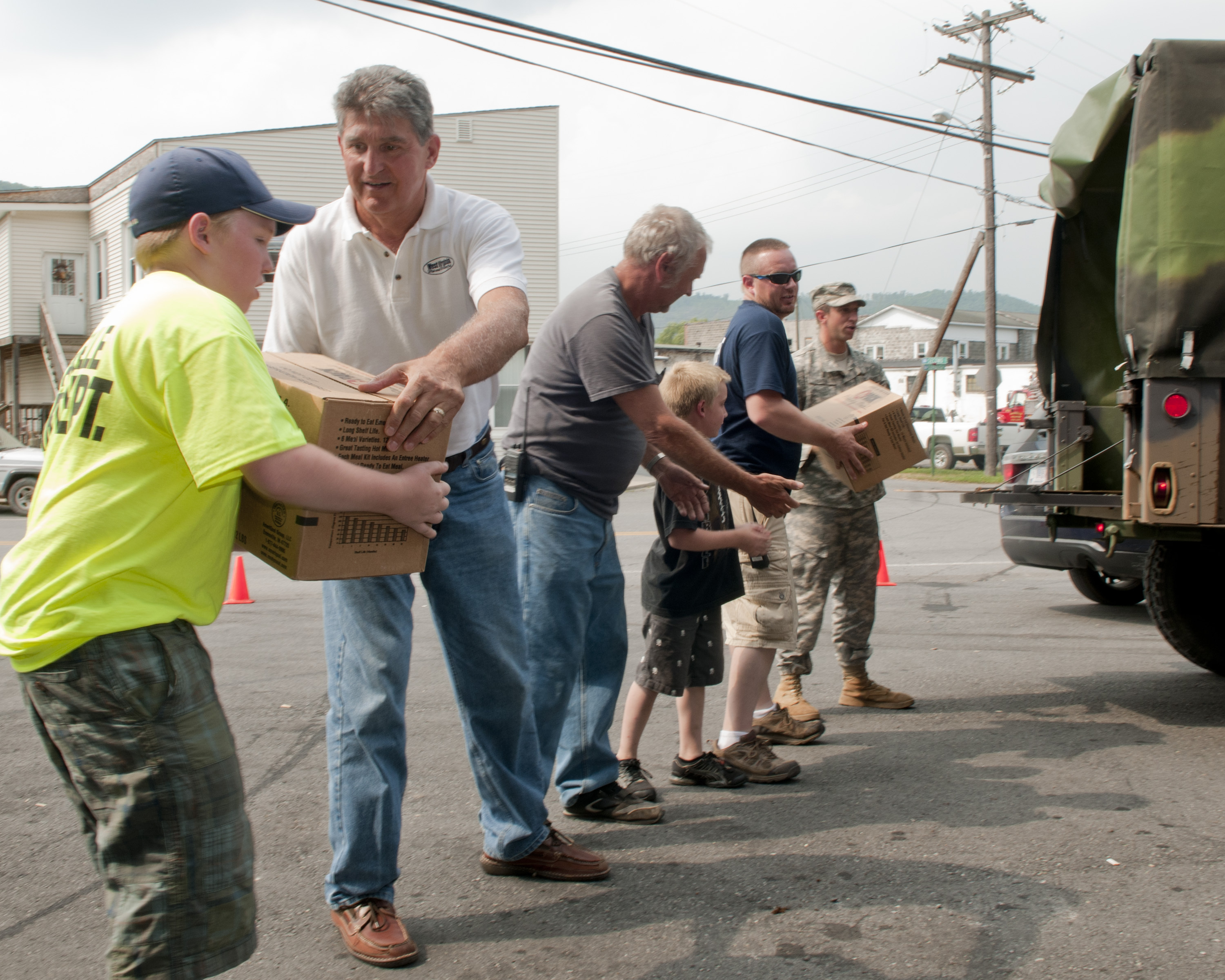 Sgt. Nathan R. Smith, 2nd/19th Special Forces Group, West Virginia Army National Guard, with the assistance of local citizens and Senator Joe Manchin, helps unload meal packets at the volunteer fire department in Rainelle, W Va. Residents of the local area are on day four of living without power in 90 degree heat due to a severe storm that passed through the area Friday night.